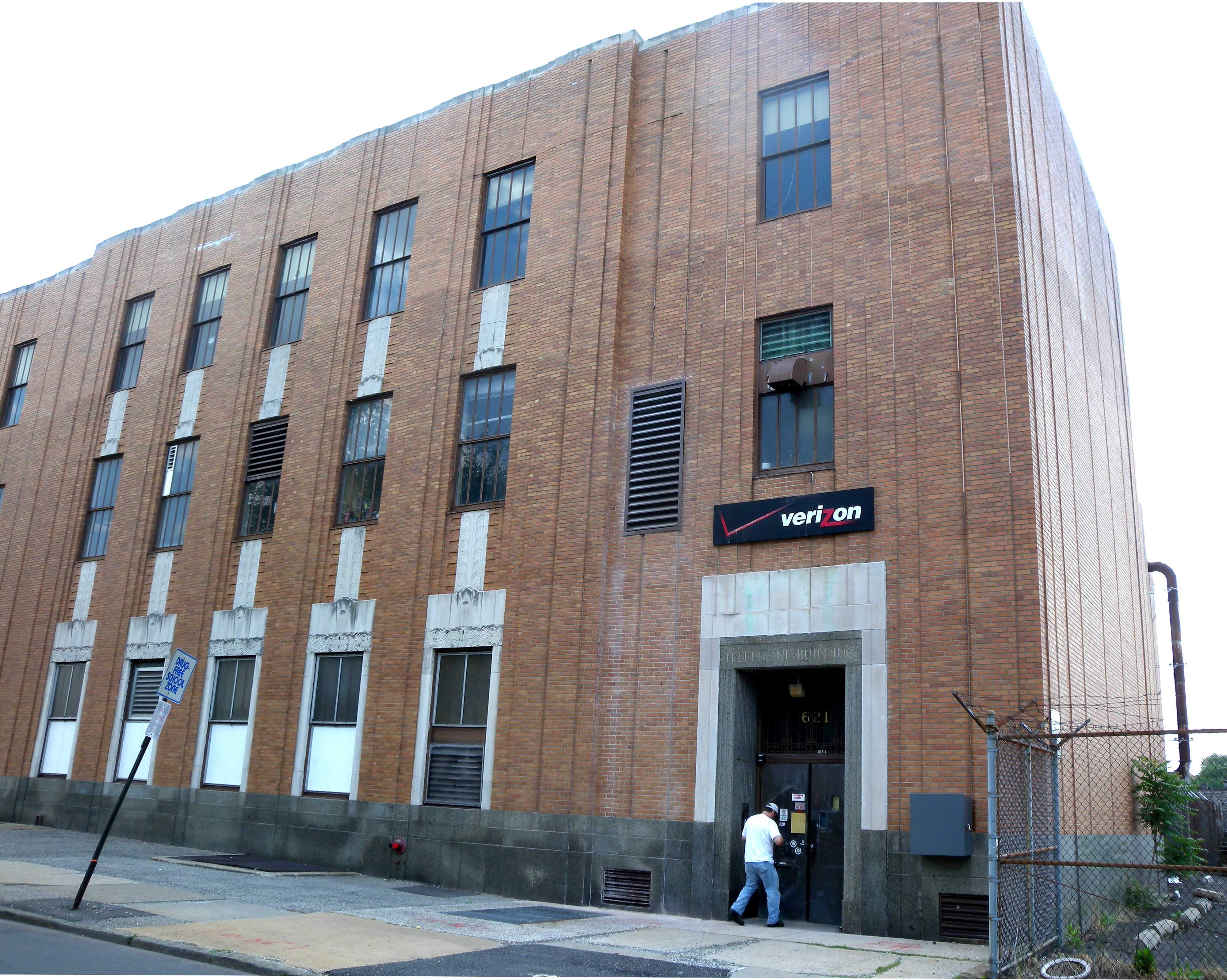 Looking south at a telephone exchange in northwestern East Orange, New Jersey on a mostly sunny midday.